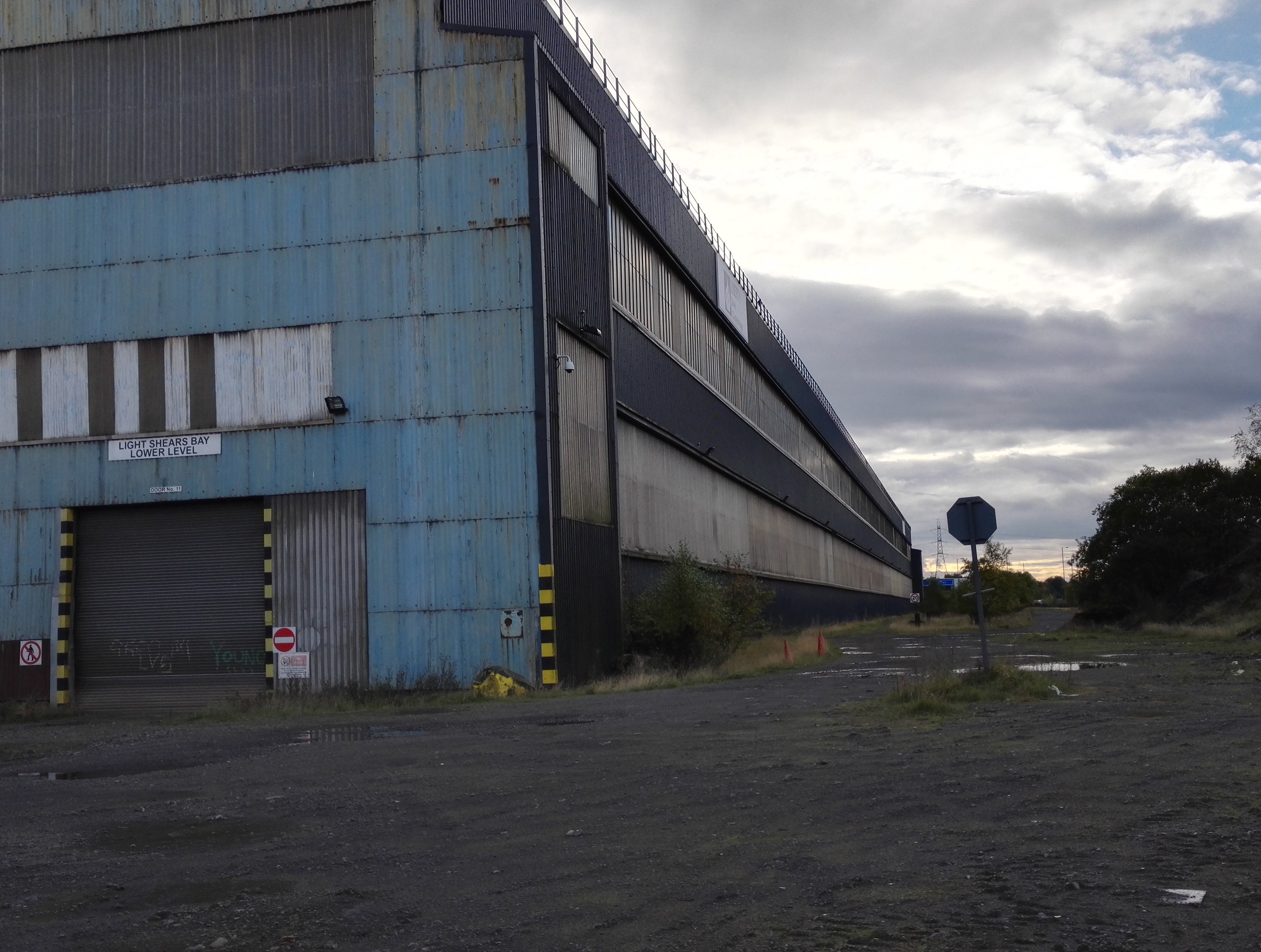 External view of one of the remaining buildings at Clydebridge steelworks, Lanarkshire (300m in length)